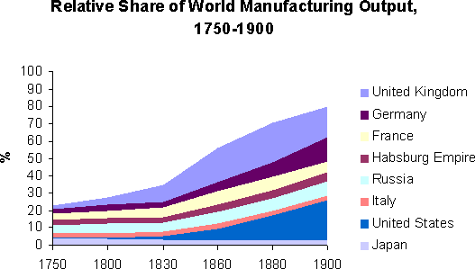 Created by the previous uploader using a popular Office program. Cut and optimized (with optipng) by me. Relative share of world manufacturing output, 1750-1950. Data from: Paul Bairoch, "International Industrialization Levels from 1750 to 1980" JEEH 11